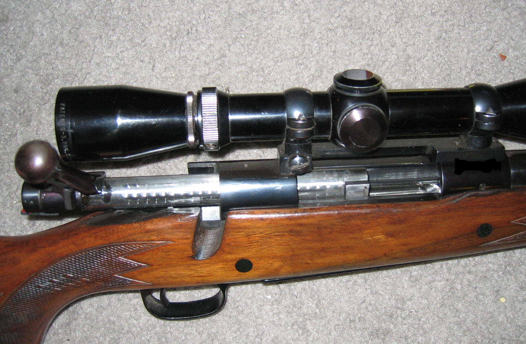 Picture taken by submitter.